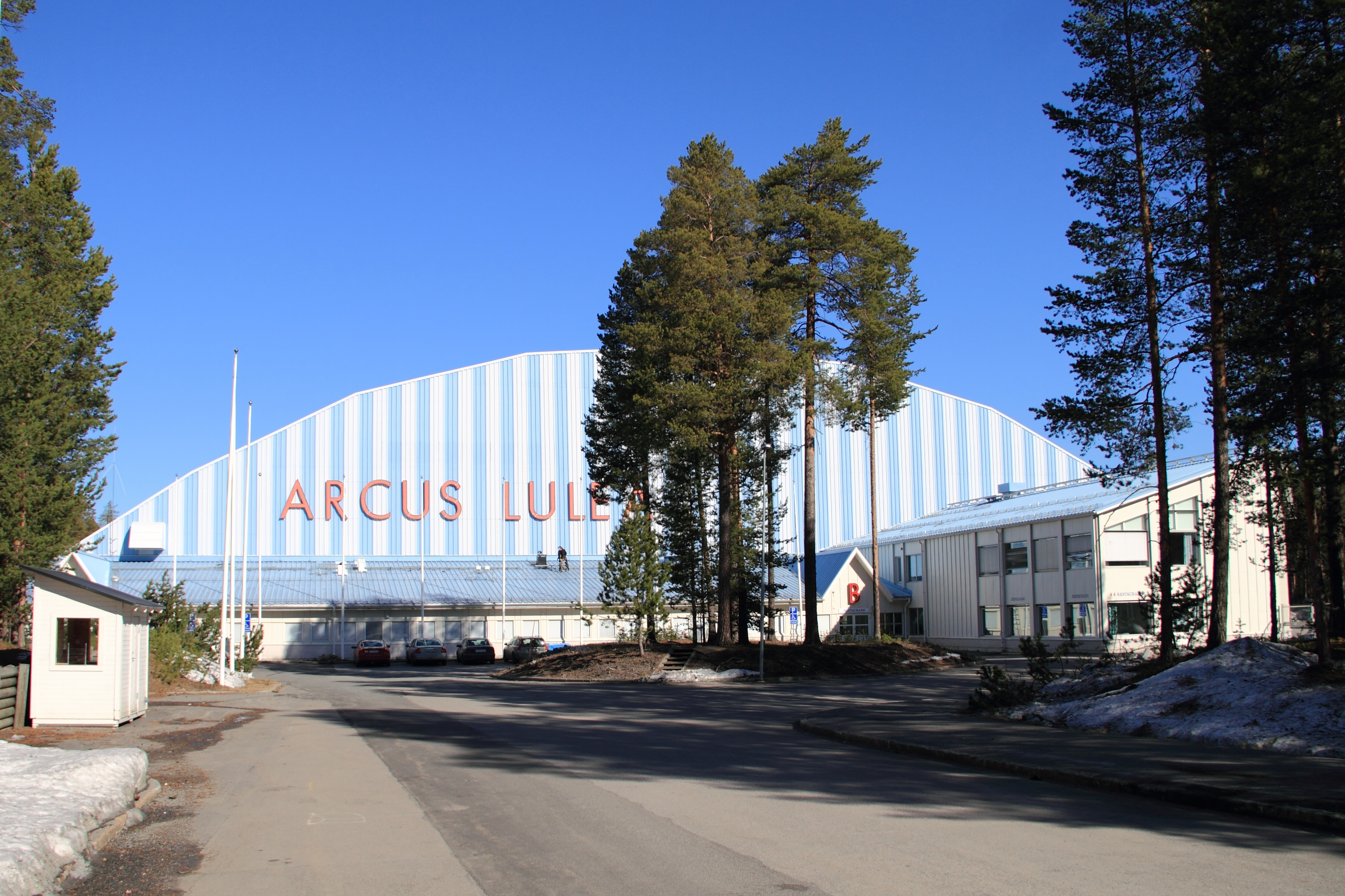 Arcushallen in Luleå, Norrbotten, Sweden. Front view of main entrance.